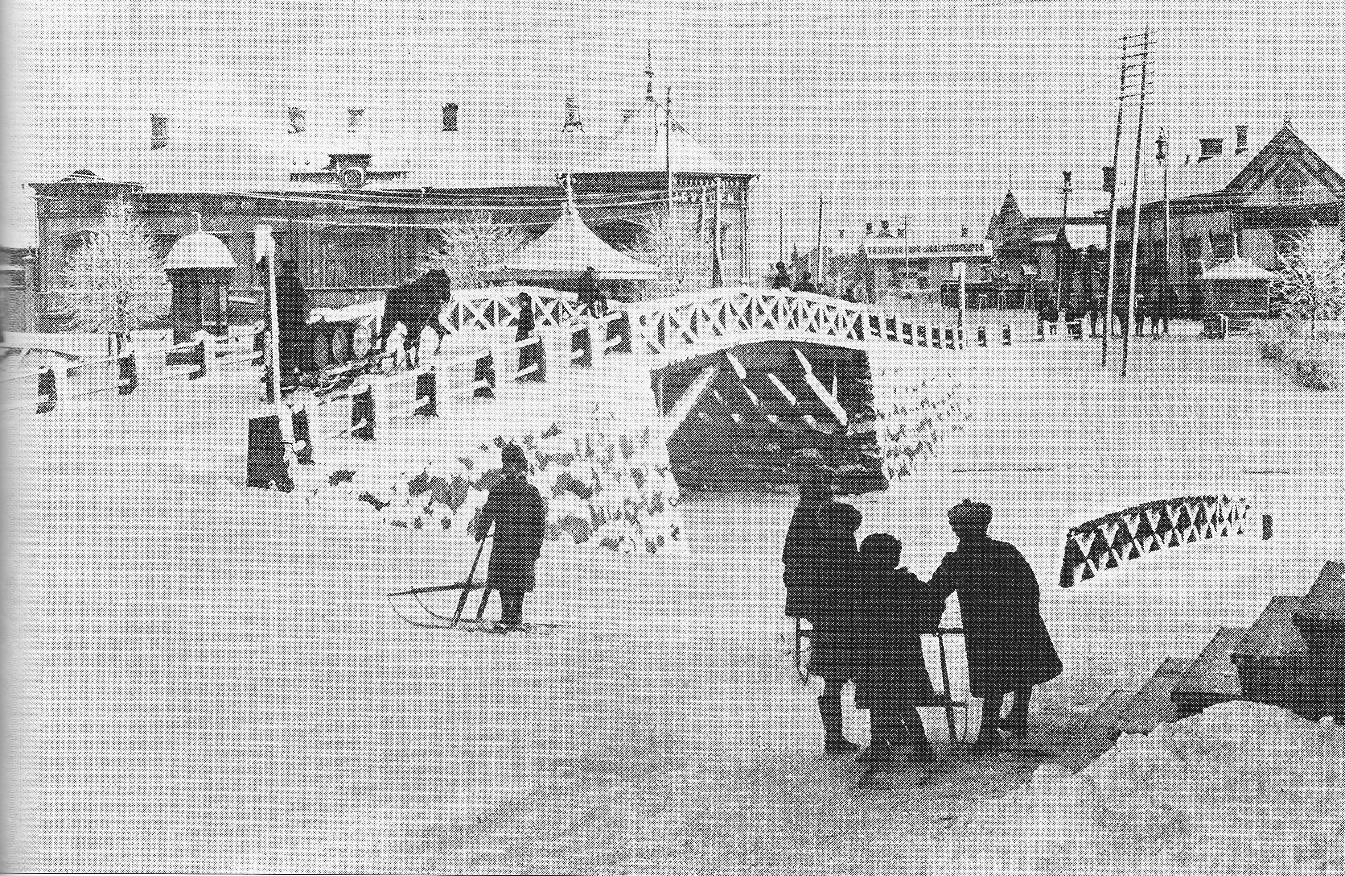 old salo bridge